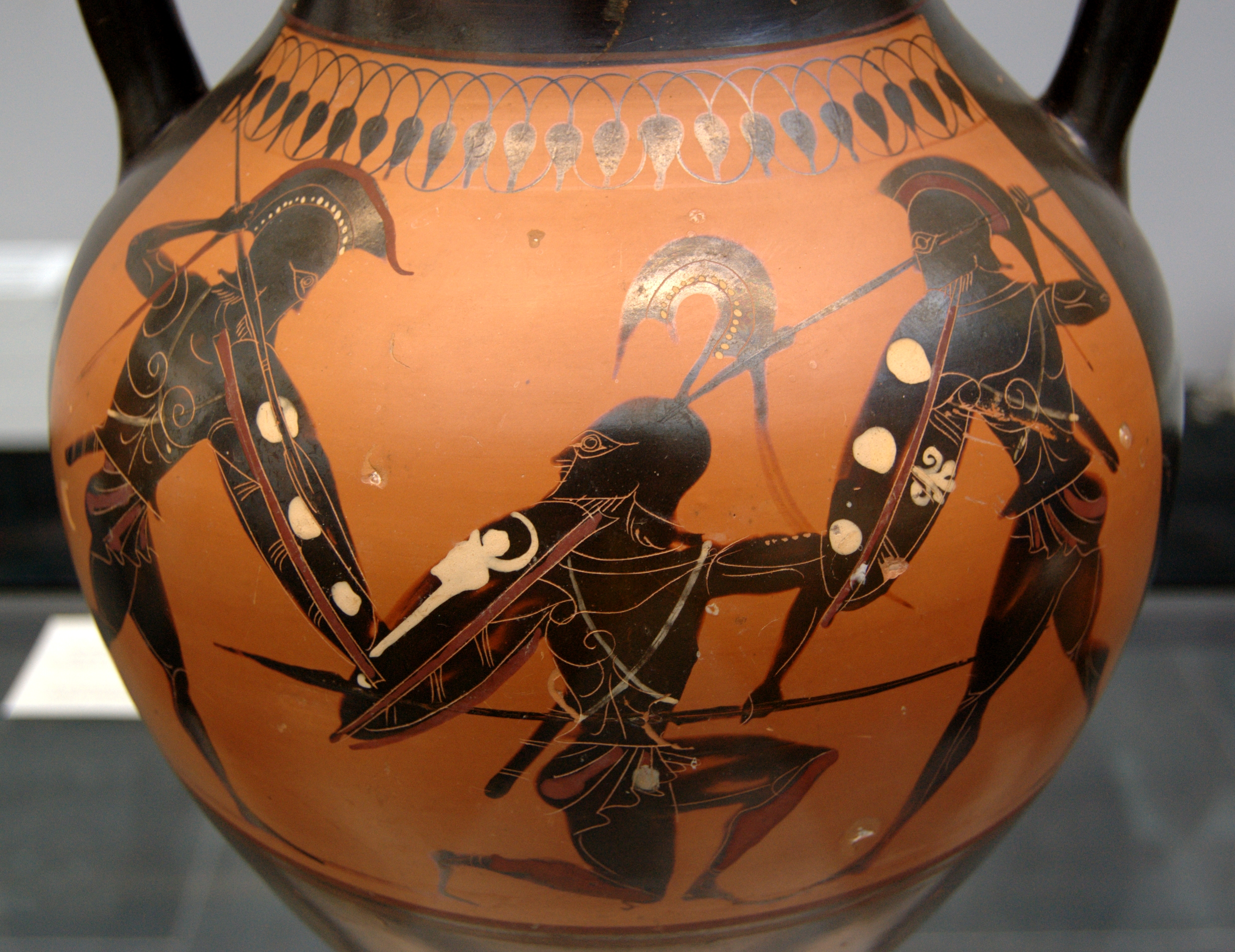 Warriors. Attic black-figure amphora, ca. 530 BC. From Vulci.